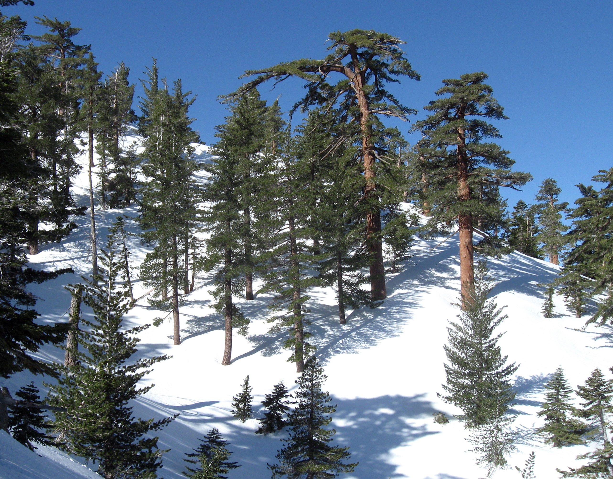 Forest of mostly Pinus lambertiana, along the route to Kelly's Camp and hence to Ontario Peak, Cucamonga Wilderness, San Gabriel Mountains, California.